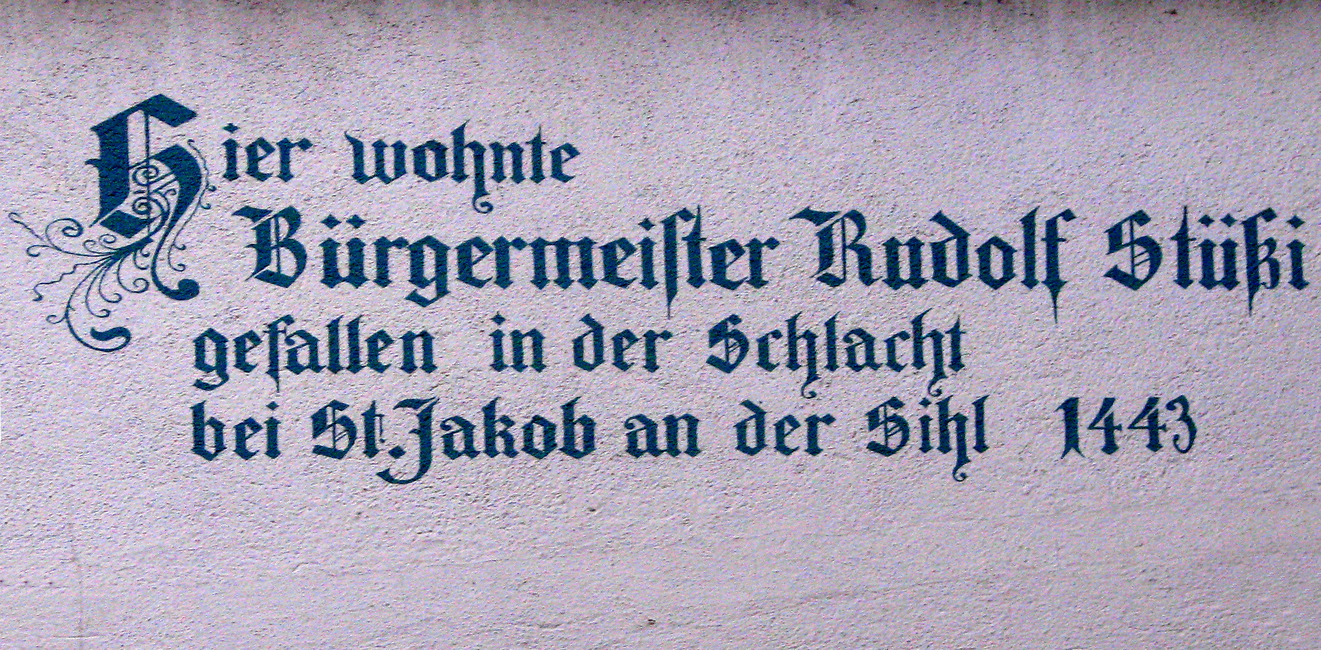 Zürich, Niederdorf: Stüssihofstatt, memorial plate at the «Haus Königstuhl», home of mayor Rudolf Stüssi († 22nd July 1443 in Zürich), used as Guild house «zur Schneidern» (tailors)